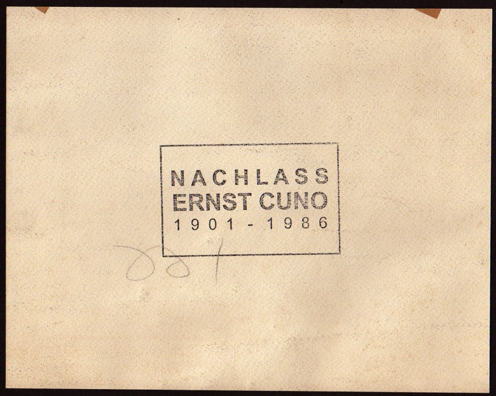 Nachlassstempel Ernst Cuno